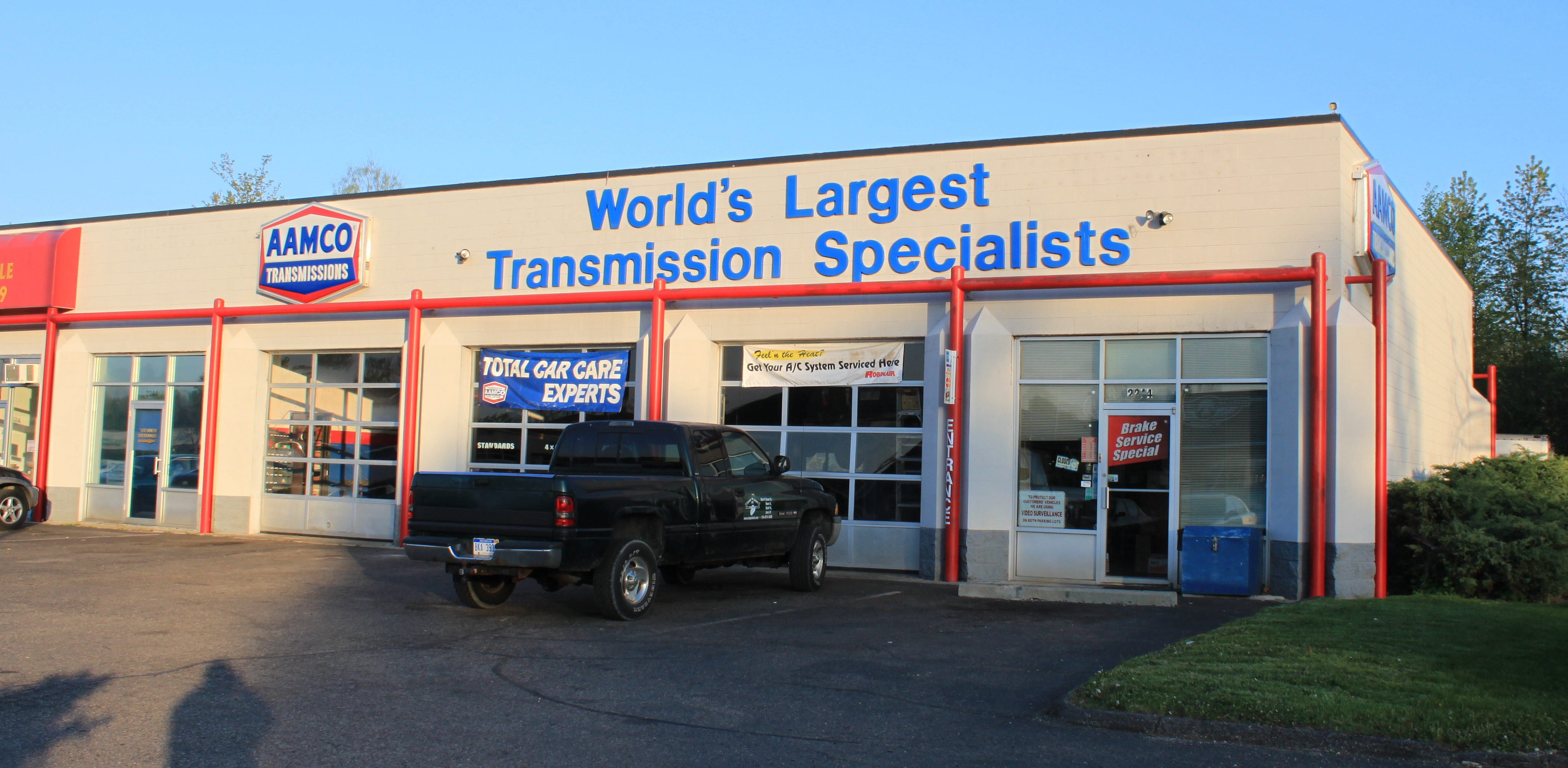 AAMCO shop, 2244 Ellsworth Rd., Ypsilanti, Michigan 48197